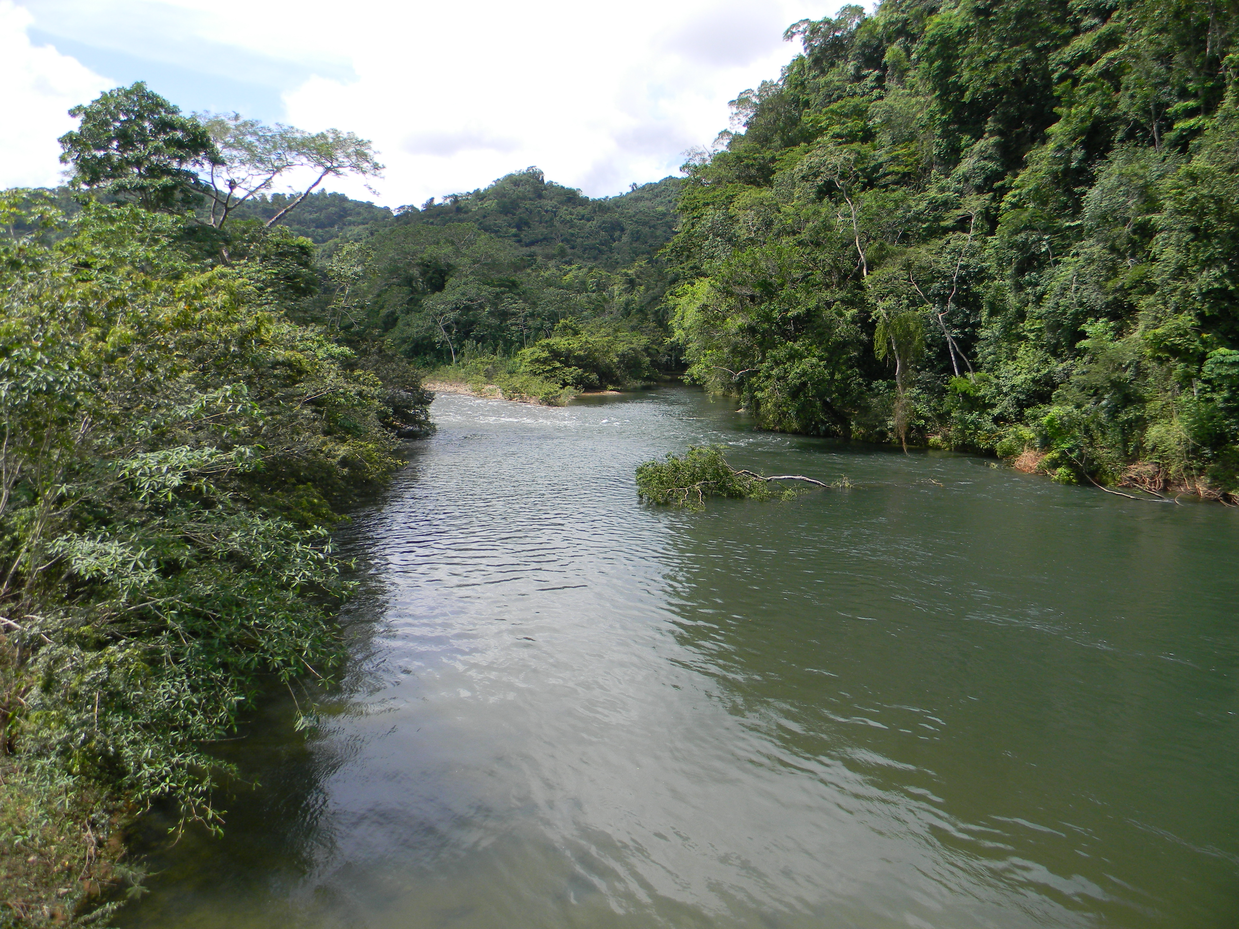 Sibun River, Belize view from Hummingbird HWY bridge